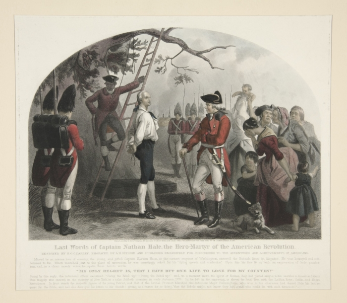 "Last Words of Nathan Hale," stipple engraving by Scottish artist Alexander Hay Ritchie (1822-1895). 10 3/16 in. x 12 3/16 in. Courtesy of the Mabel Brady Garvan Collection, Yale University Art Gallery, Yale University, New Haven, Conn.